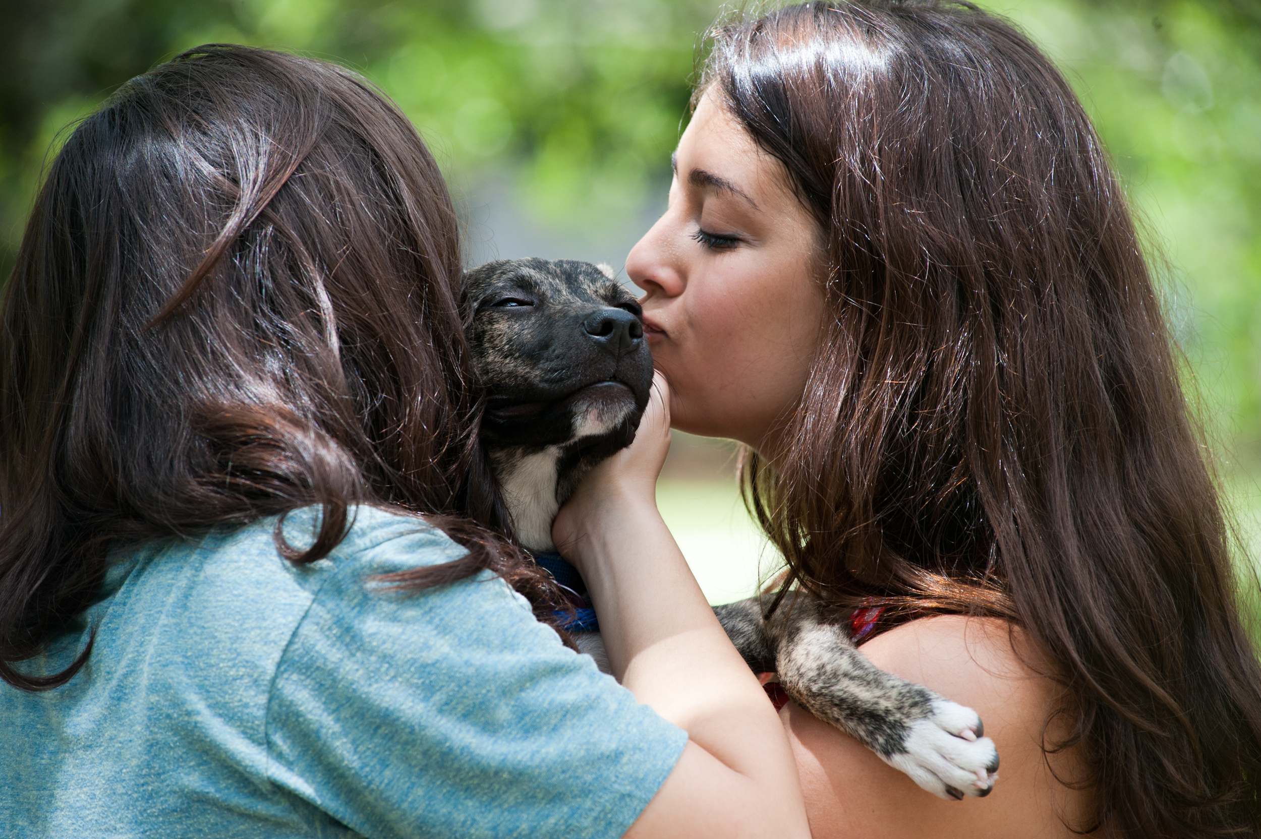 Puppy Petting with the Tulane Tutoring Center. The LA-SPCA brought puppies for the students to play with and pet in order to de-stress from finals.